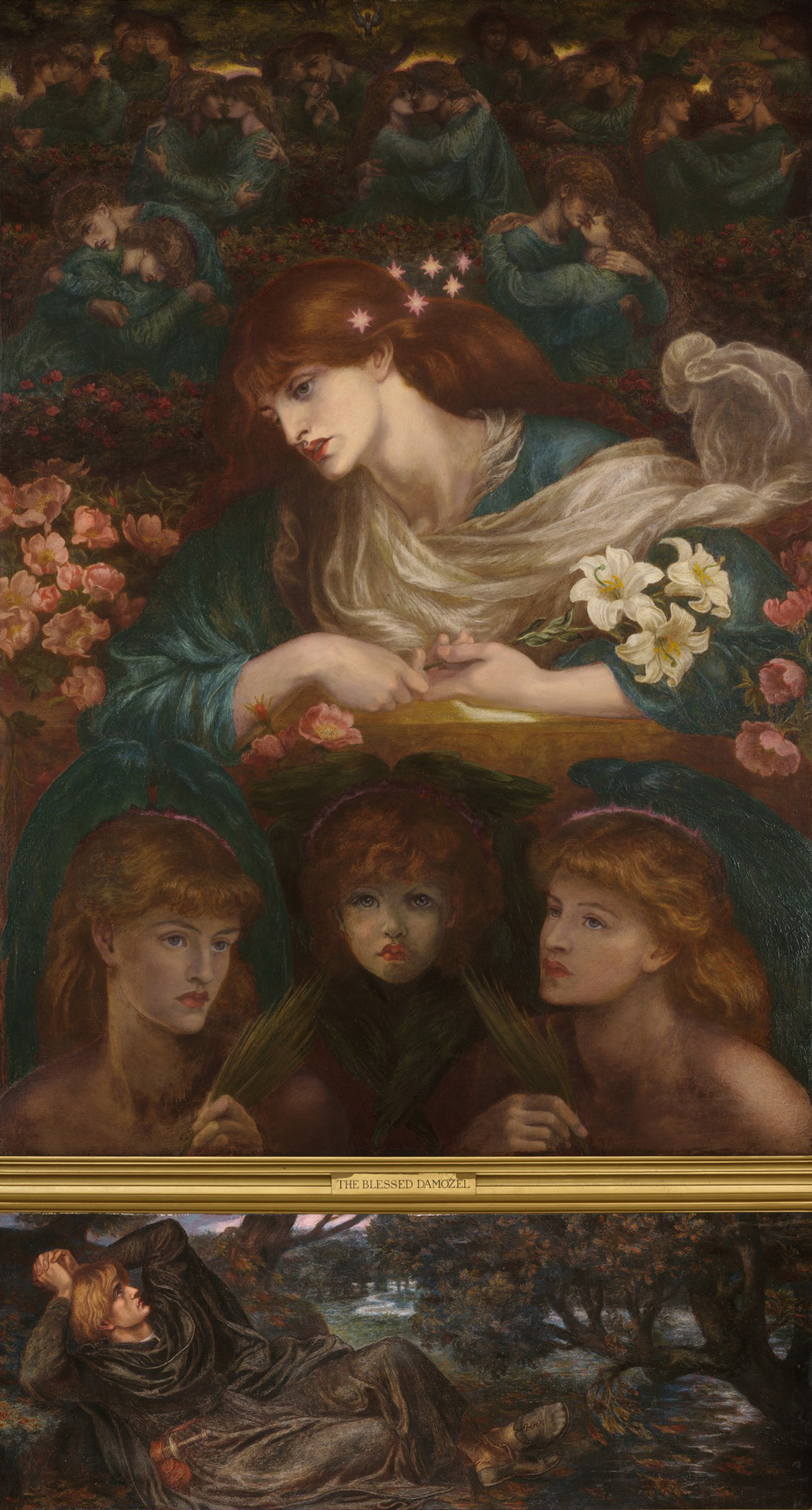 An illustration of Rossetti's poem.